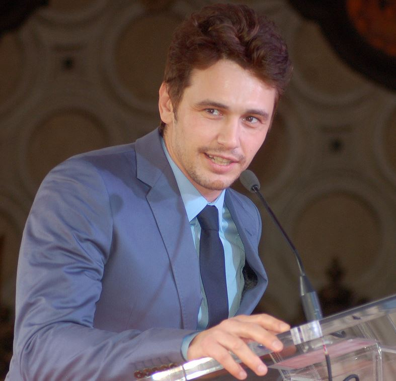 James Franco at a ceremony to receive a star on the Hollywood Walk of Fame.